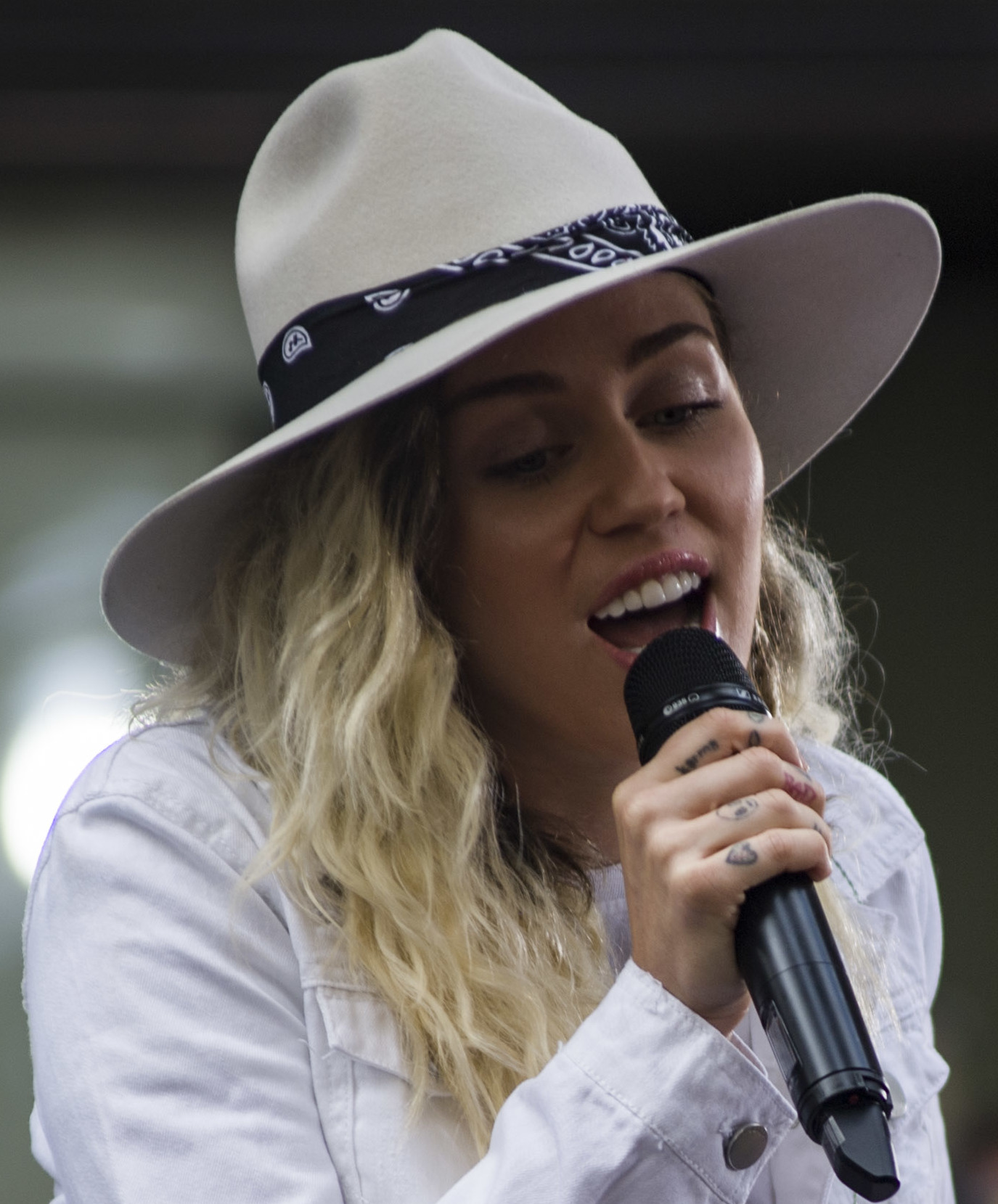 170526-N-EO381-052 NEW YORK (May 26, 2017) Ð Miley Cyrus performs on the Today Show in downtown Manhattan for Fleet Week New York (FWNY). FWNY, now in is 29th year, is the cityÕs time honored celebration of the sea services. It is an unparalleled opportunity for the citizens of New York and the surrounding tri-state area to meet Sailors, Marines and Coast Guardsmen, as well as witness firsthand the latest capabilities of todayÕs maritime services. (U.S. Navy photo by Mass Communication Specialist 3rd Class Casey J. Hopkins/Released)